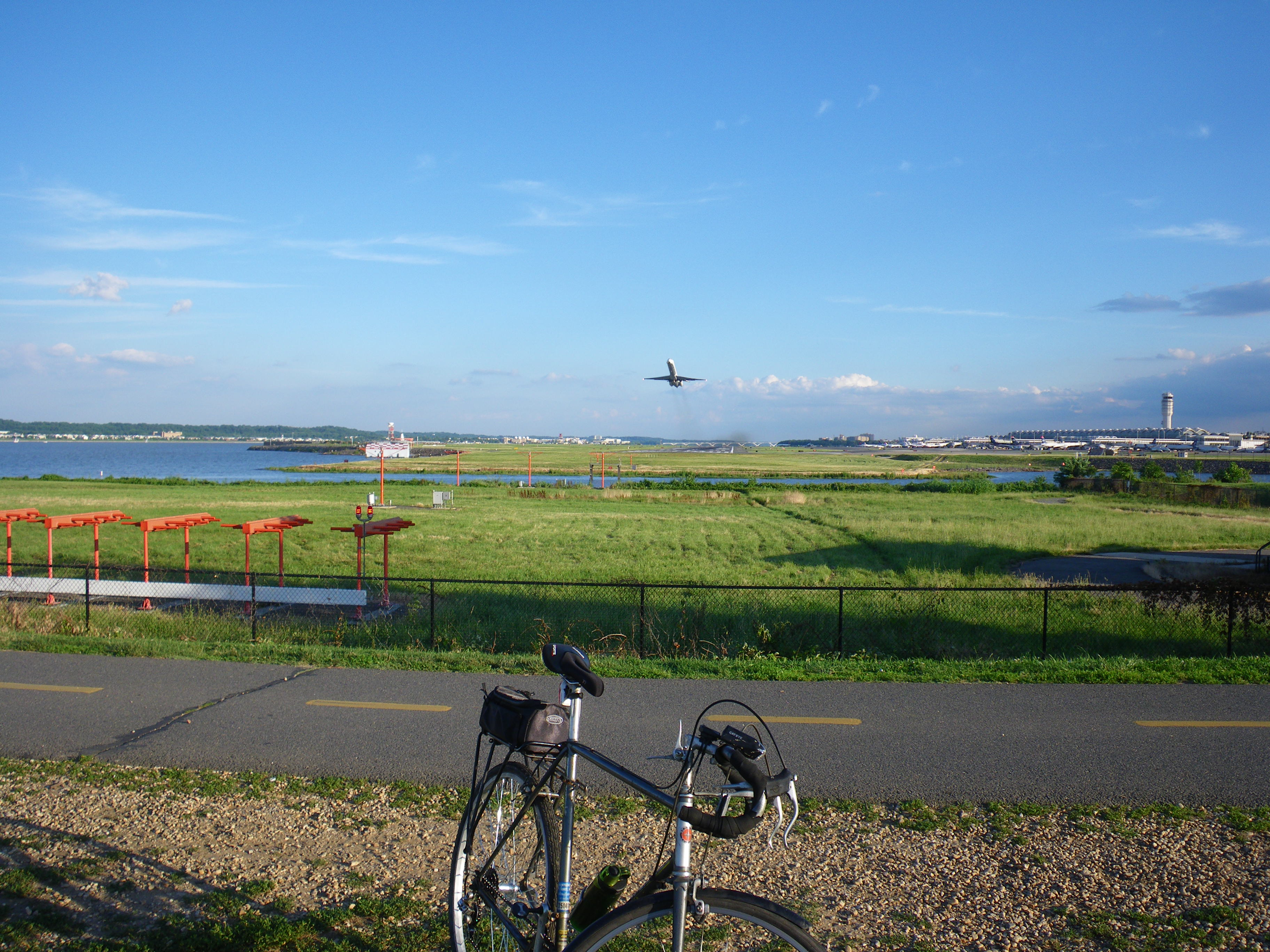 Standing at Gravelly Point on the Mount Vernon Trail looking as an airplane takes off from Reagan National Airport.